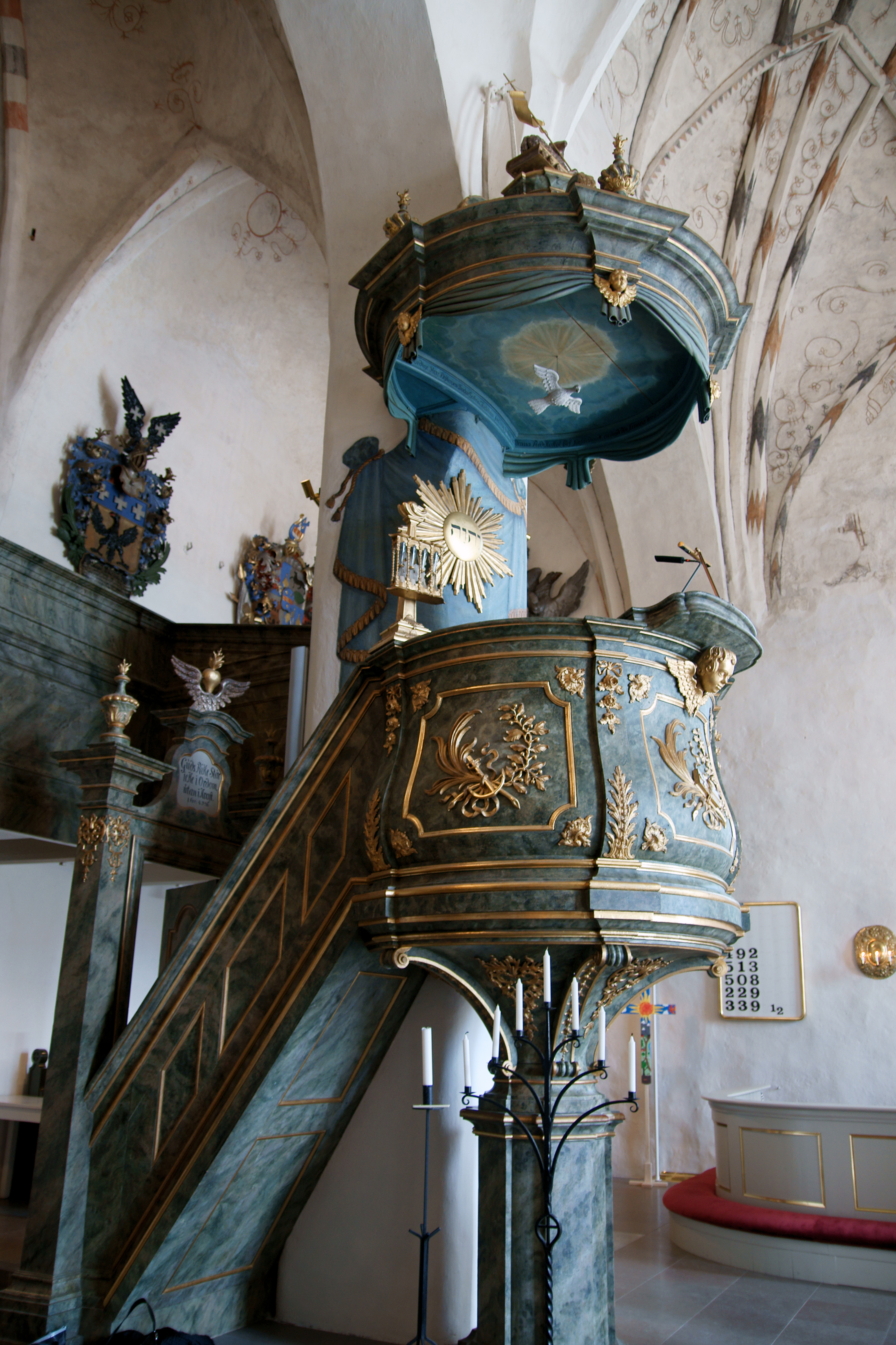 Pulpit of Porvoo Cathedral in Porvoo, Finland.